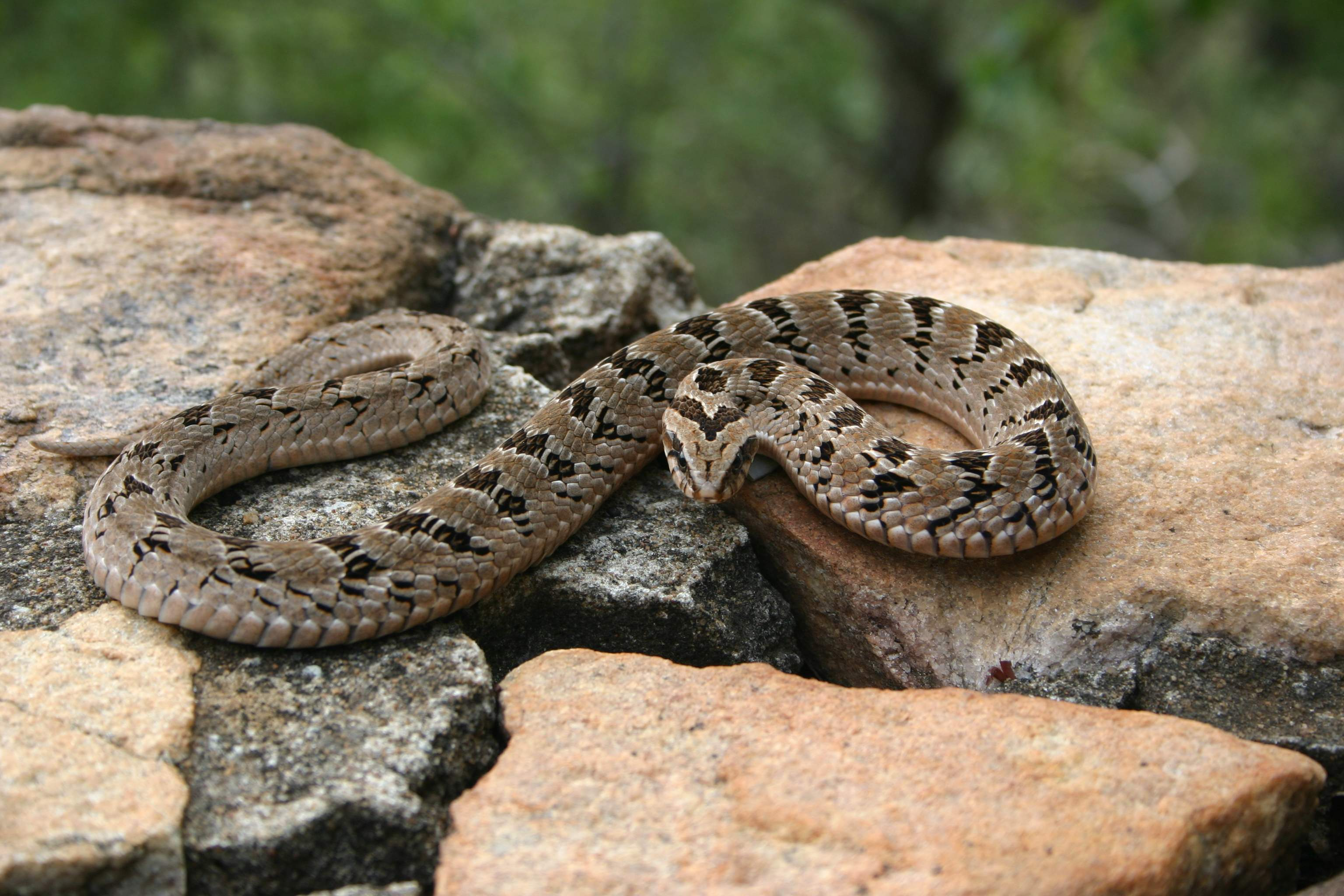 Young Night adder at Hamerkop near Sparkling Waters, Magaliesberg, South Africa